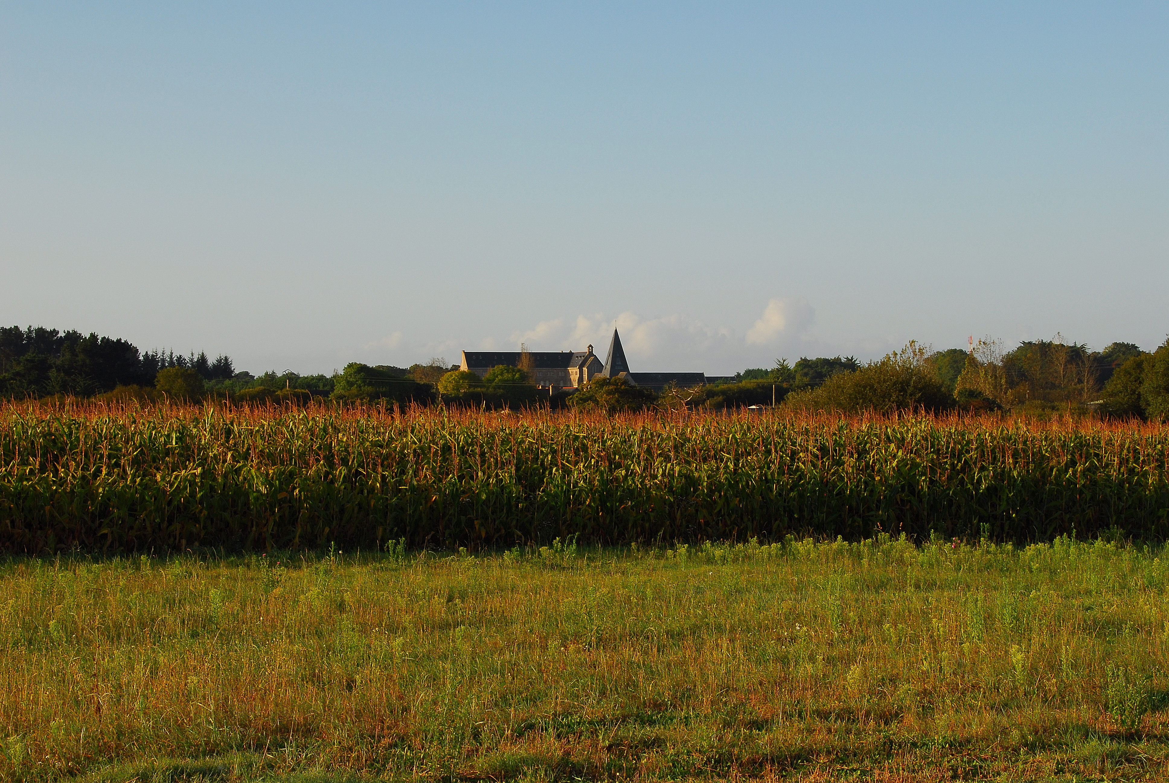 benedictine monastery in France, Brittany